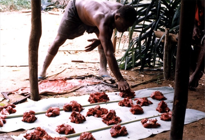 Meat is shared out by a Mbendjele hunter; photo by Jerome Lewis